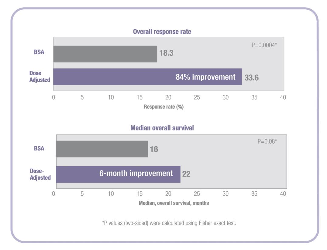 Shows improvement is cancer treatment response rate with PK-guided dosing of 5-FU